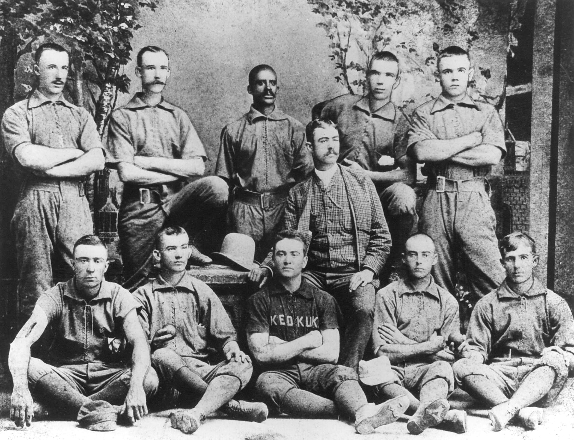 1885 Keokuk, Iowa professional baseball teamBack row, left to right: Otto Schomberg, Darby O'Brien, Bud Fowler, David Corcoran, DeckerMiddle row: William HarringtonFront row, left to right: Ted Kennedy, Bill Van Dyke, Dan Dugdale, Nat Hudson, George Harter